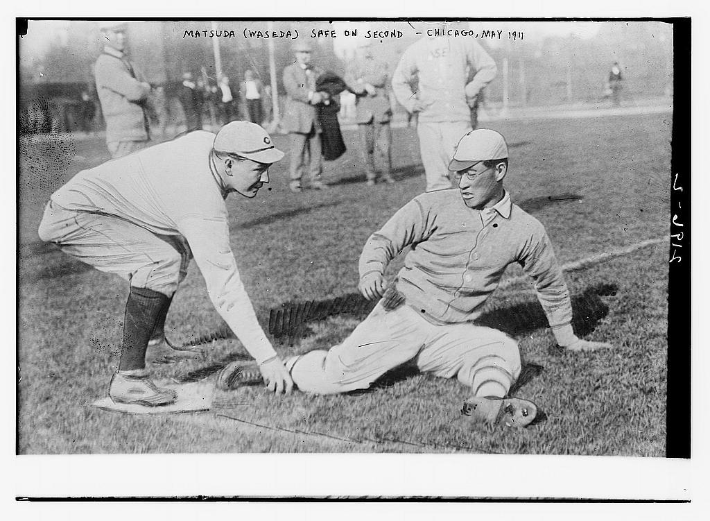 Bain News Service,, publisher. [Matsuda (Waseda University, Japan) is safe; a re-enactment of a play from a baseball game with Chicago University, Marshall Field, May 1911] 1911 (date created or published later by Bain) 1 negative : glass ; 5 x 7 in. or smaller. Notes: Title devised by Library staff with information from the source: Flickr Commons project, 2008. Original Bain News Service negative caption misidentified the special homeplate shape as being 2nd base: "Matsuda (Waseda) safe on second, Chicago, May 1911." Forms part of: George Grantham Bain Collection (Library of Congress). Format: Glass negatives. Repository: Library of Congress, Prints and Photographs Division, Washington, D.C. 20540 USA, General information about the Bain Collection is available at Higher resolution image is available (Persistent URL): Call Number: LC-B2- 2196-2